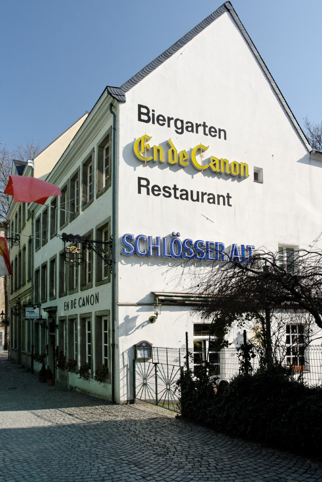 En de Canon, Zollstraße 7 in Düsseldorf-Altstadt, Germany